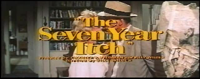 The closing title shot from the theatrical trailer of the 1955 film The Seven Year Itch directed by Billy Wilder.